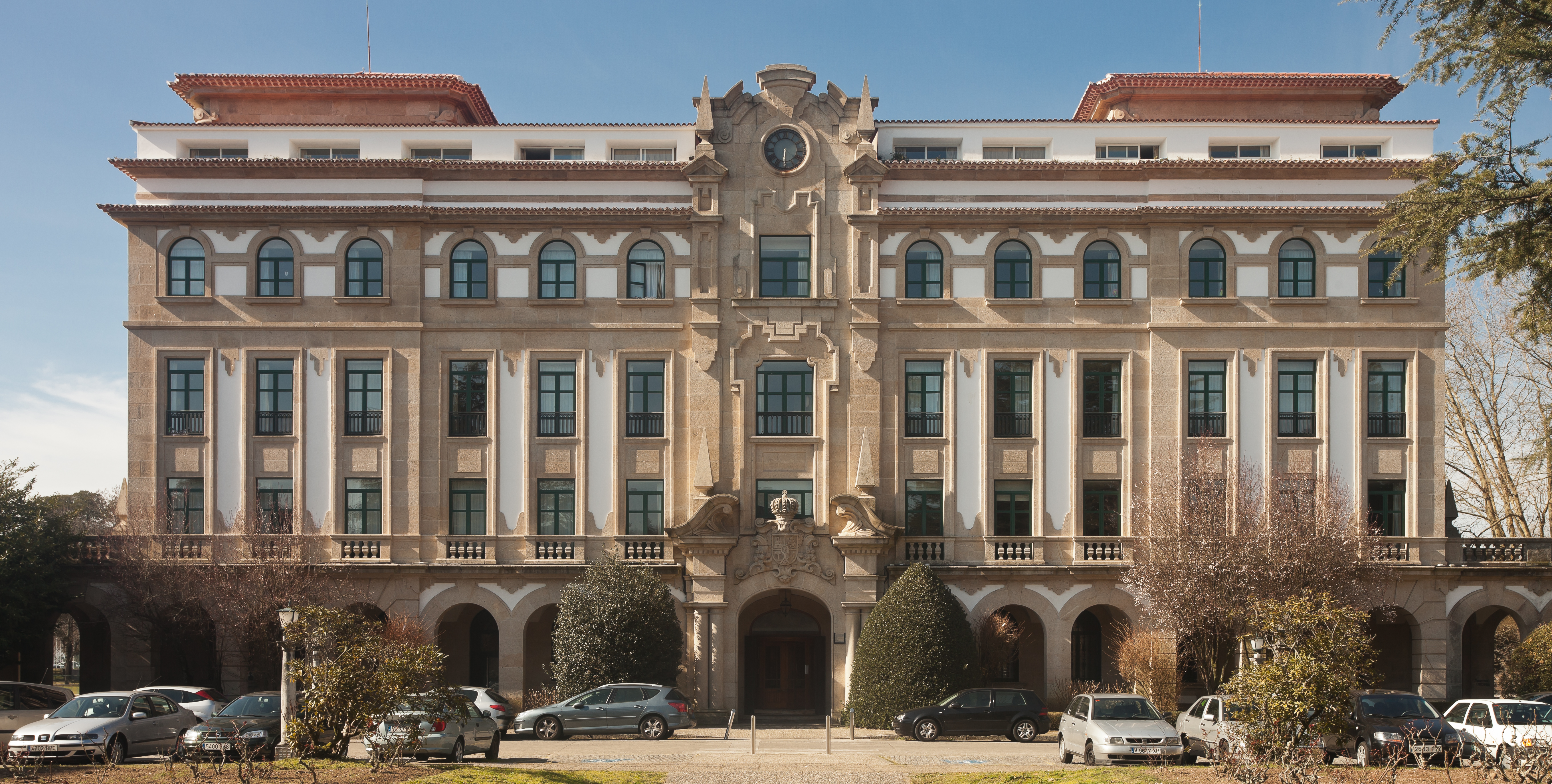 College Fonseca, University of Santiago de Compostela, Galicia. SpainGalego: Colexio maior Fonseca. Campus universitario de Santiago de Compostela, Galiza